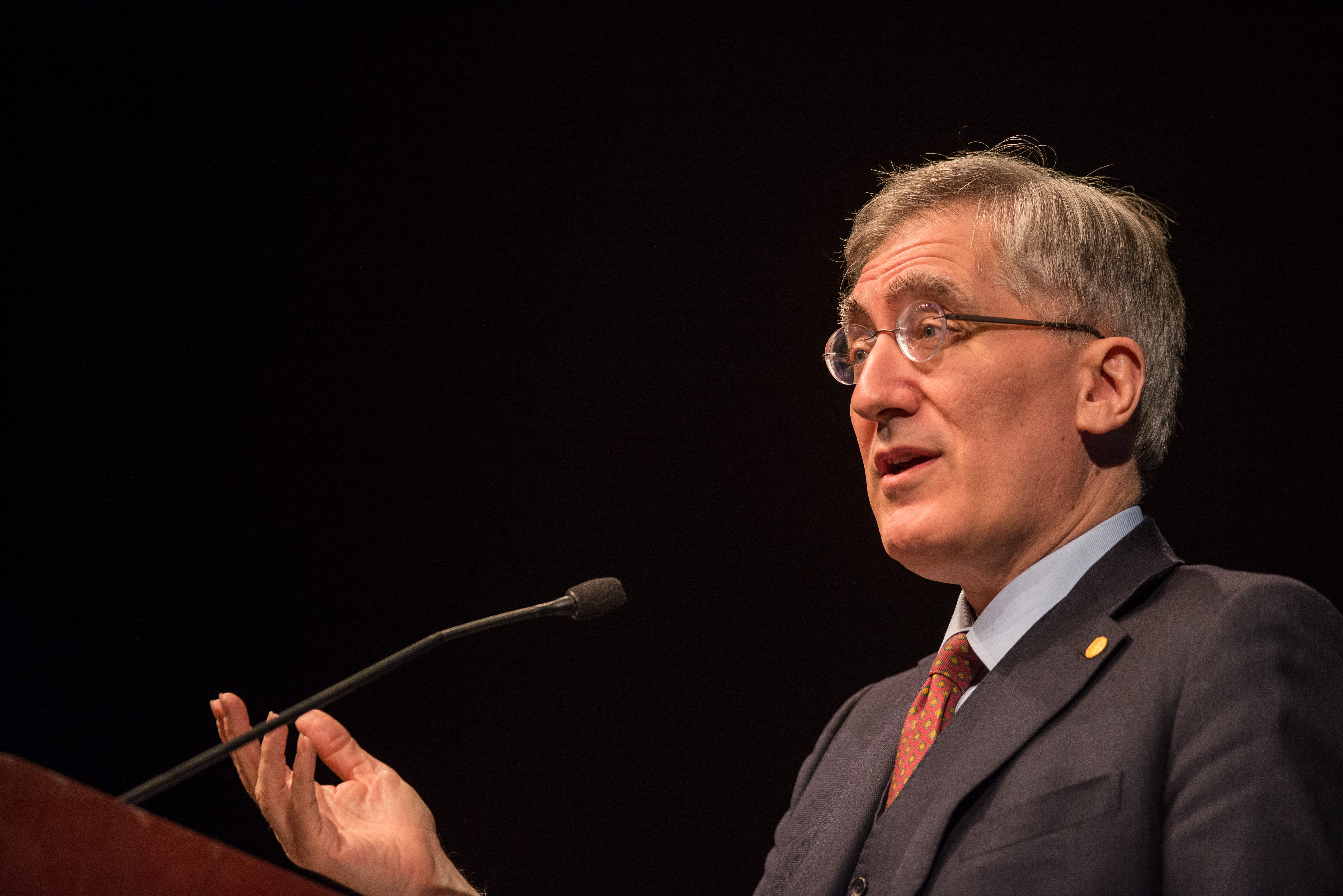 The Henry H. Fowler Program proudly presented Dr. Robert P. George for the College’s 2013 Constitution Day address at Roanoke College.